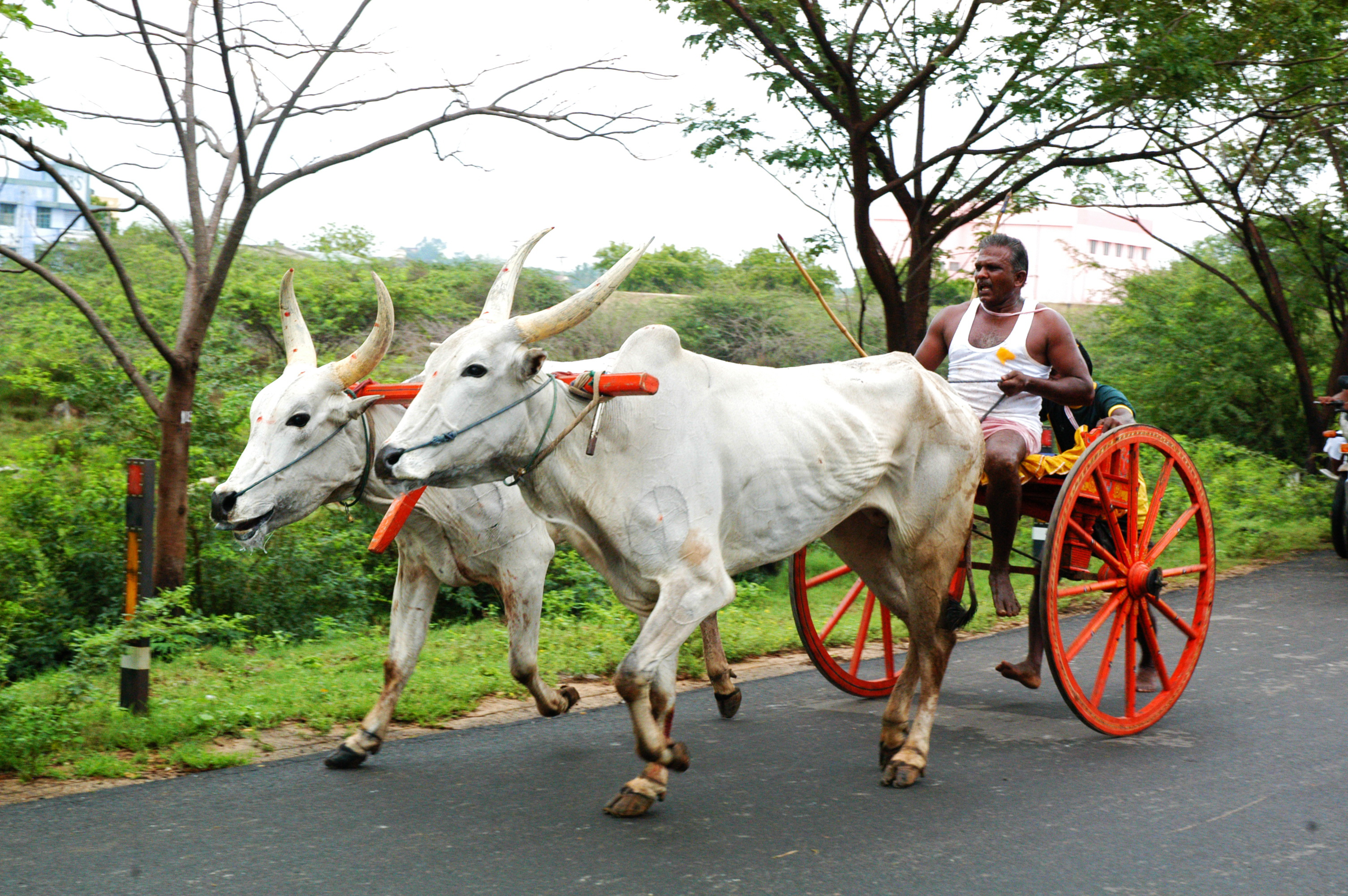 A Rekla Race (Ox cart race) in progress. Place: Avaniyapuram near Madurai in Tamil Nadu, India